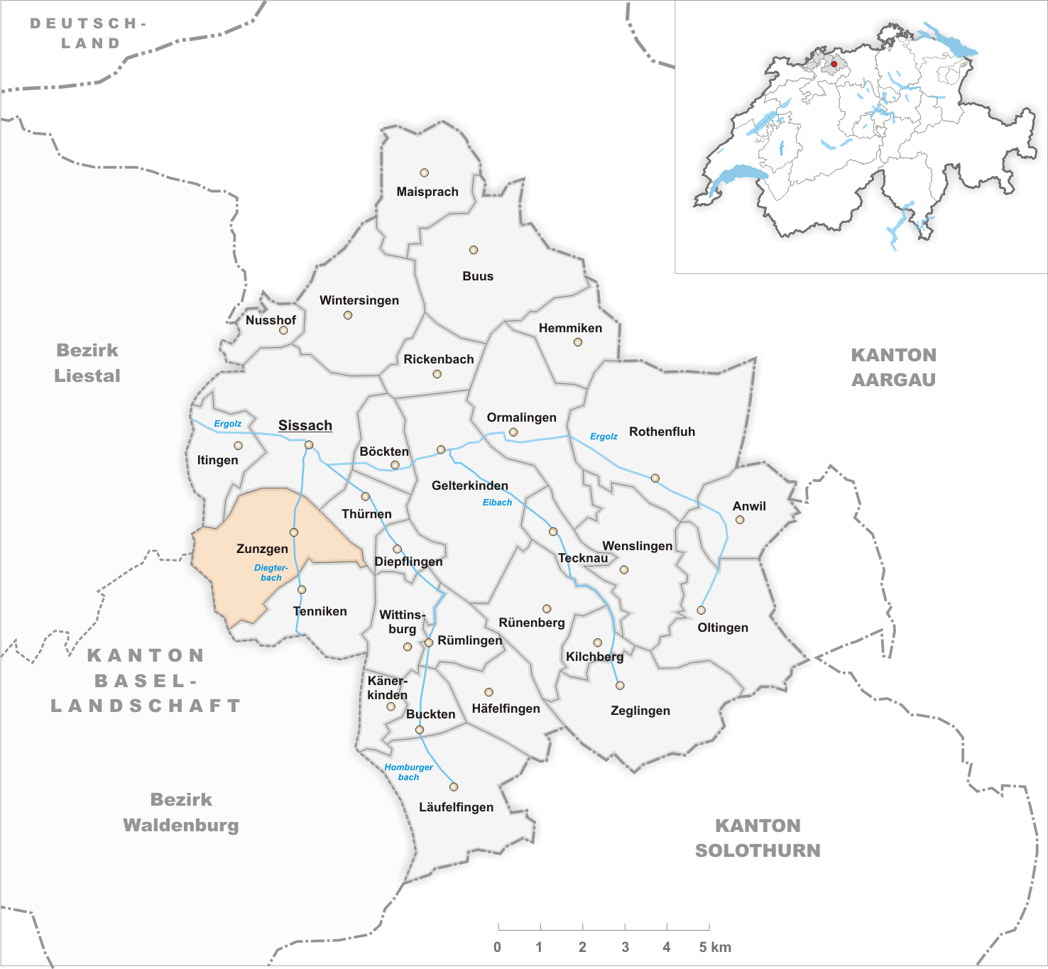 Municipality Zunzgen